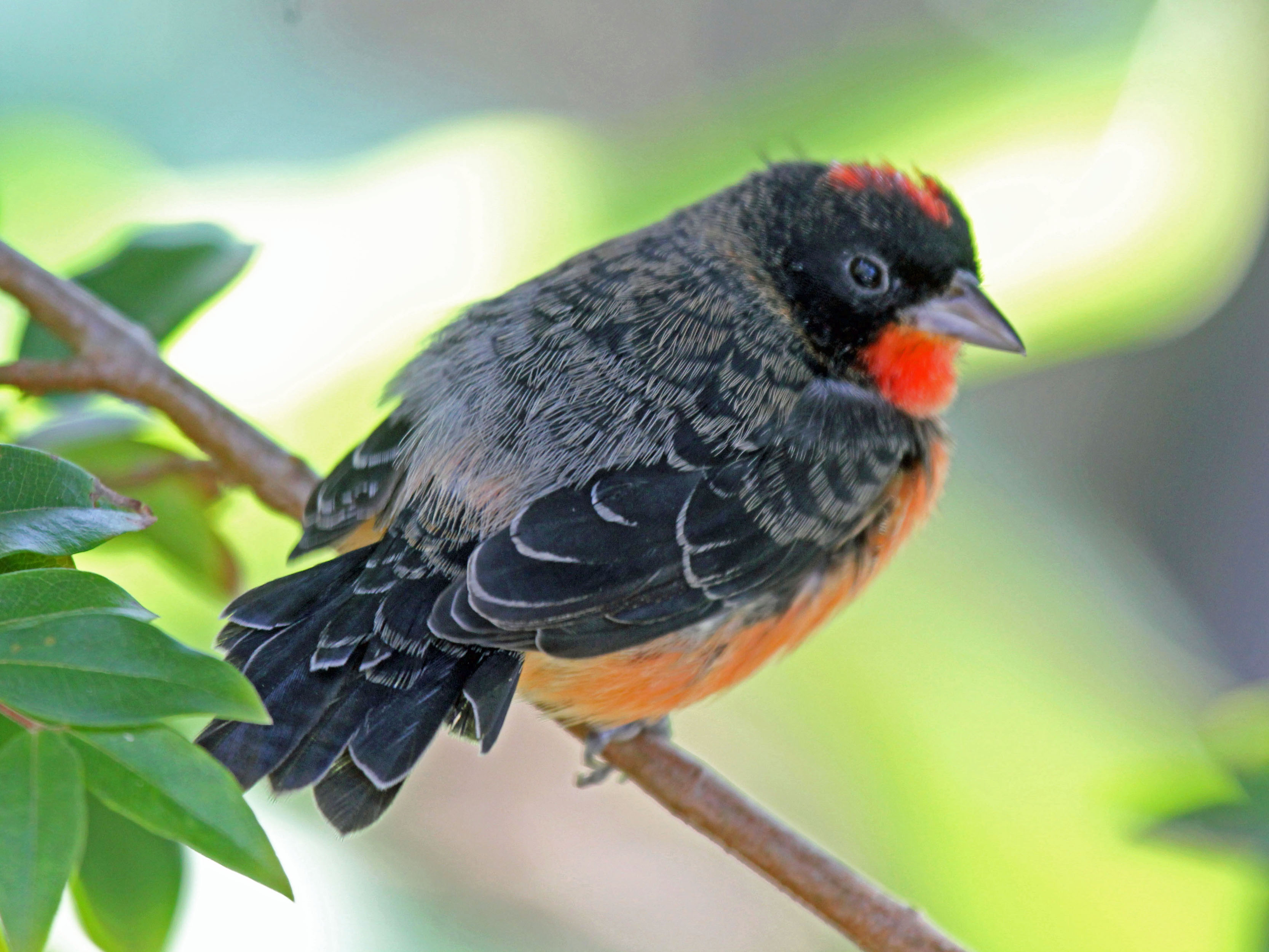 Crimson-breasted Finch, also Crimson Finch-Tanager (Rhodospingus cruentus) - Butterfly World, Florida